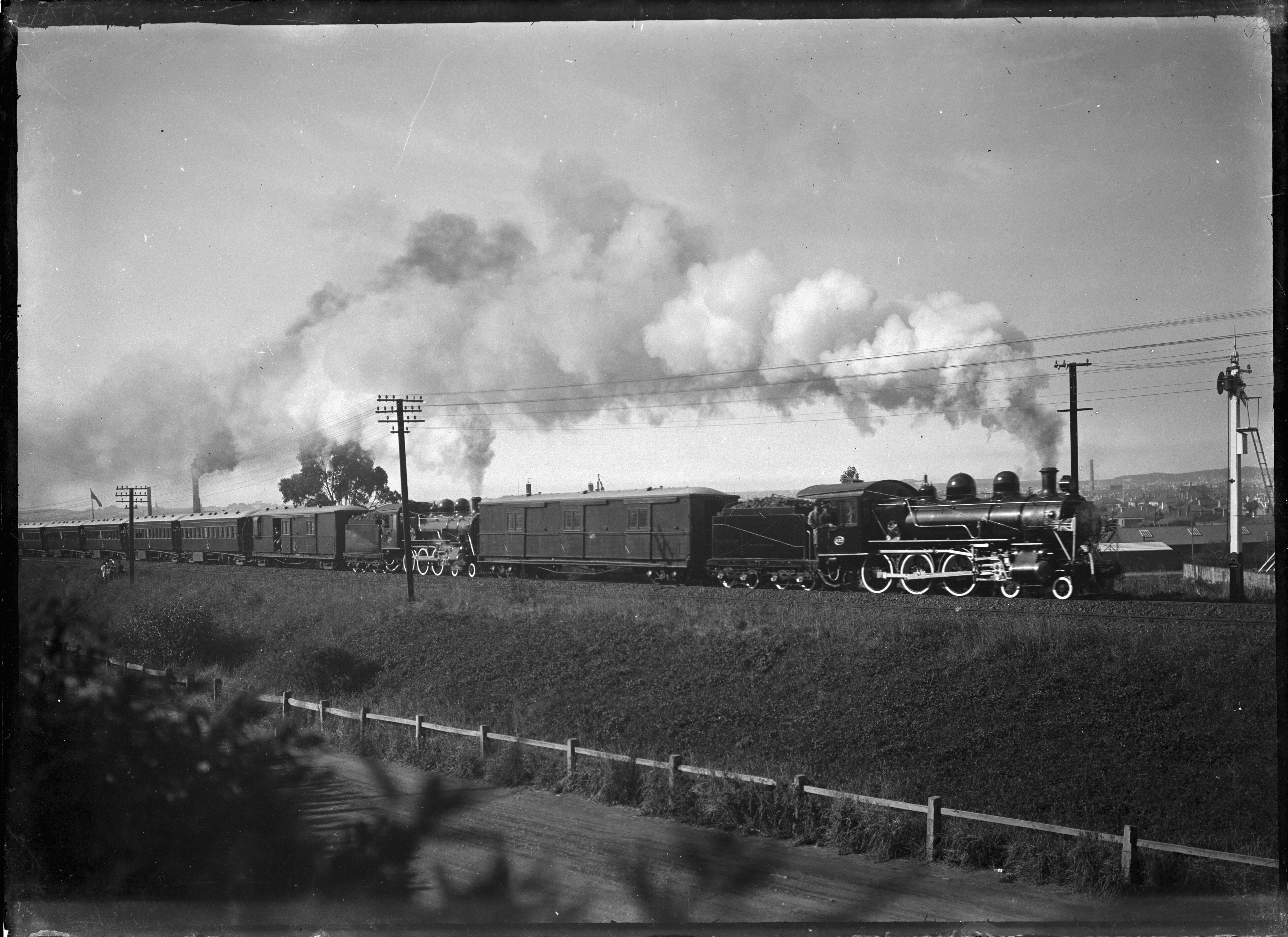 Royal train nearing Dunedin, of the tour of the Duke and Duchess of York in 1927. Two steam locomotives pull the train, "Ub" class 321, and "Ub" 322. Photographed by Albert Percy Godber, on 19 March 1927.